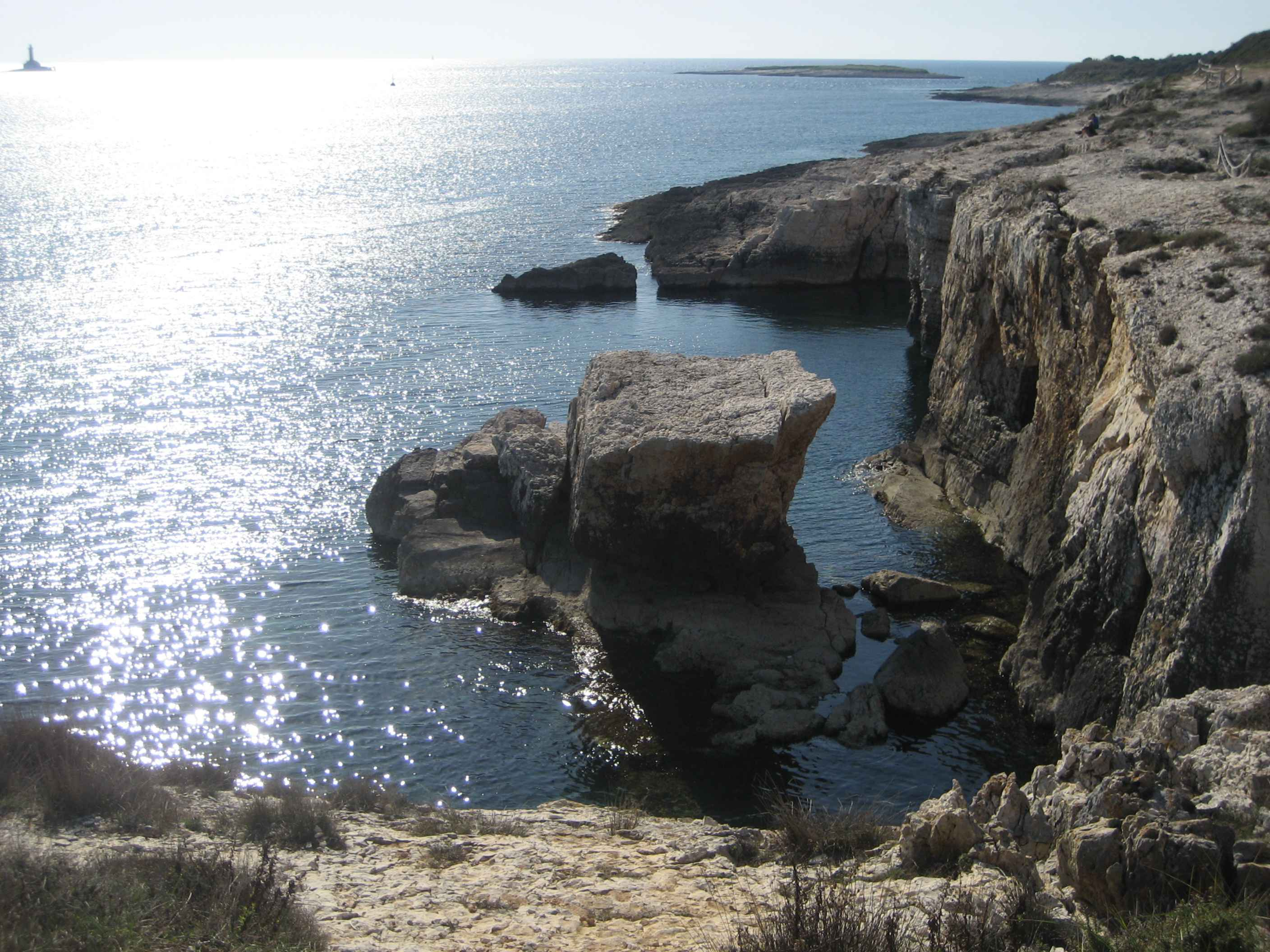 Cape Kamenjak, Northwest Croatian Coast